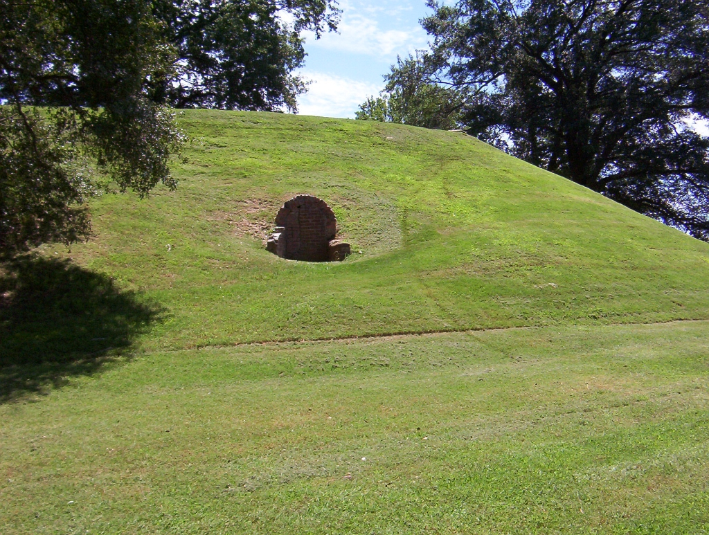 Location is in the Chickasaw Heritage Park at Metal Museum Drive in Memphis, Tennessee. Images show Paleo-Indian mounds of unknown age. The site was Chief Chisca's Chickasaw fortress. In 1739 it was the location of French Fort Assumption. In the Civil War it was the site of Confederate Fort Pickering. For the use as Civil War Fort the top was hollwed out and artillery placed there, an ammunition bunker was dug into the side of the mound. Entrance of the ammunition bunker/powder magazine.